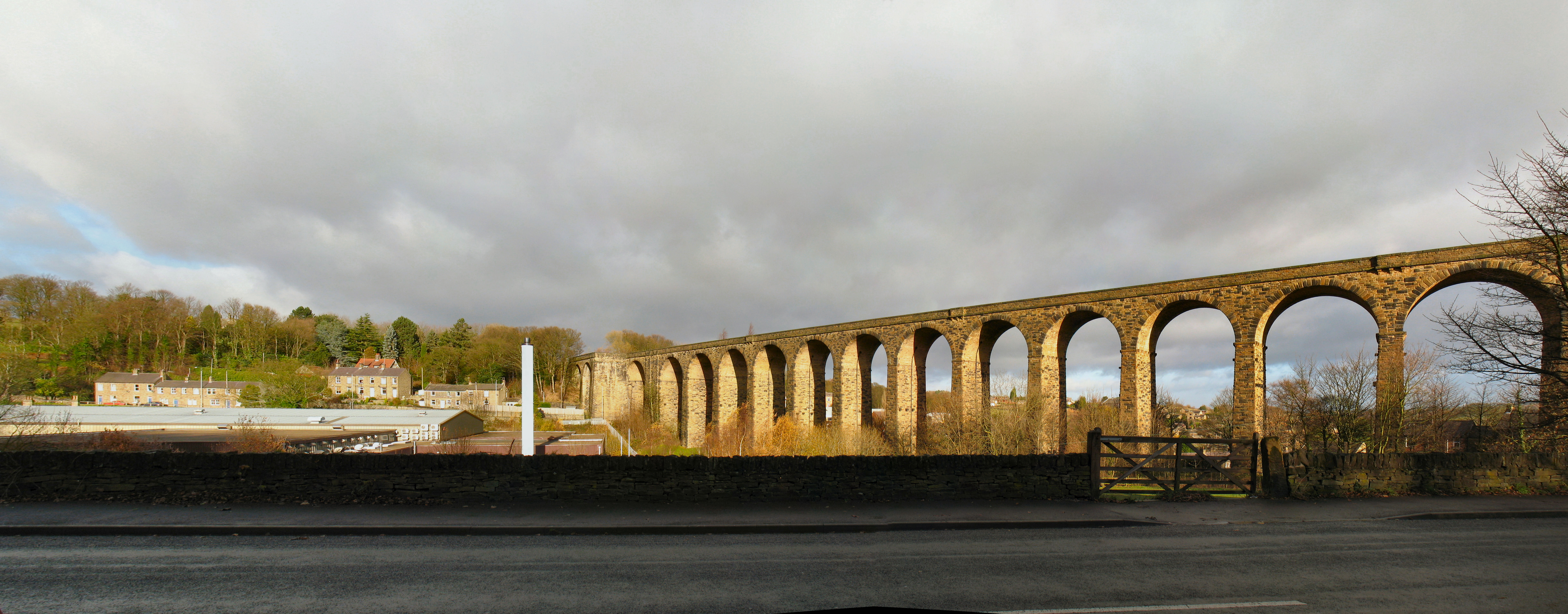 The Parish Council's website says Denby Dale Viaduct "strides across the Dearne Valley". Especially dramatic in low winter sunlight - and after heavy rain. (Photo from Barnsley Road - looking northeast.) ____________________________ (An experiment in stitching several photos. To view large and original, Click here.